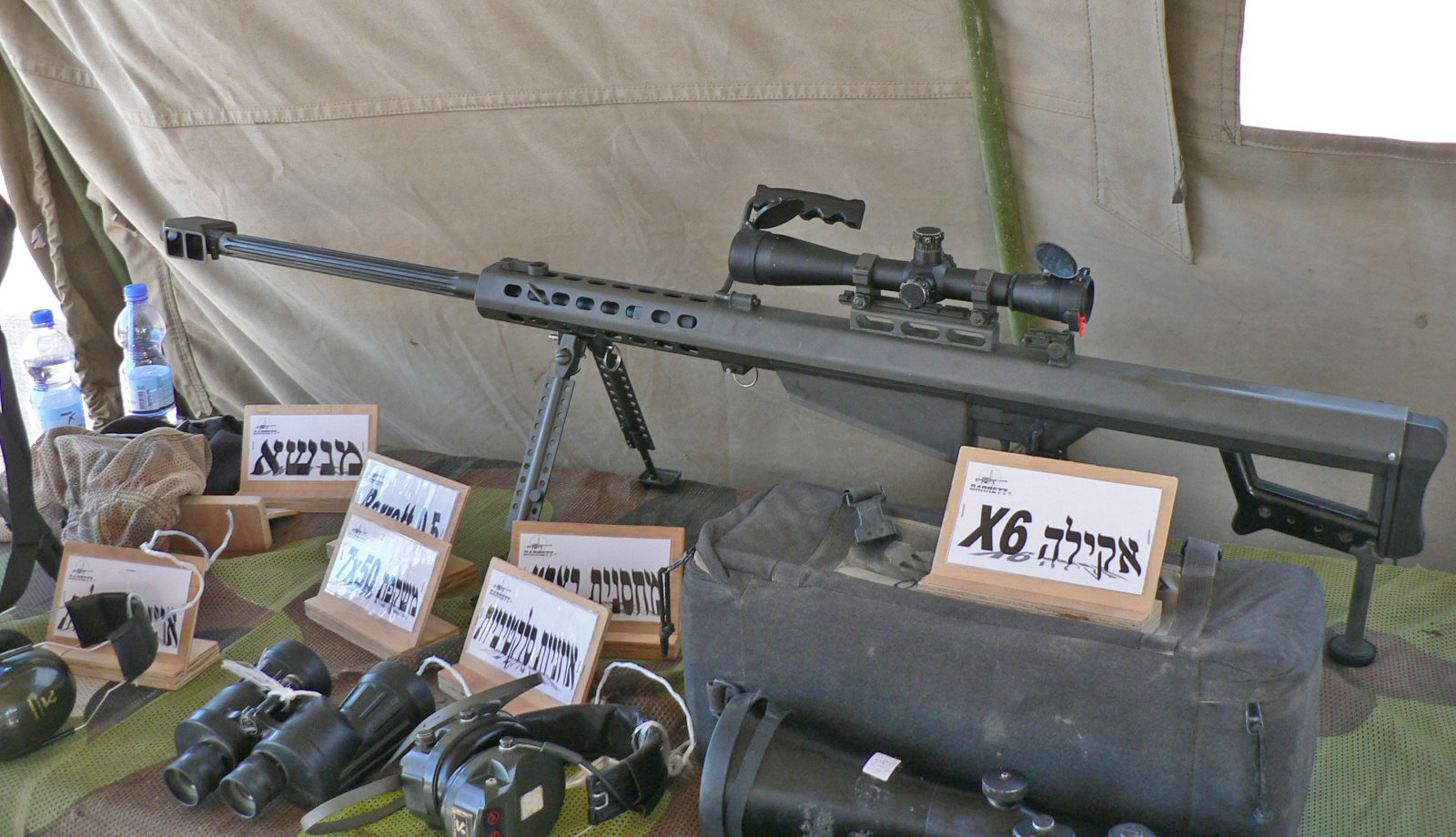 Israel Defense Forces Barrett M82A1 heavy 0.5 sniper rifle